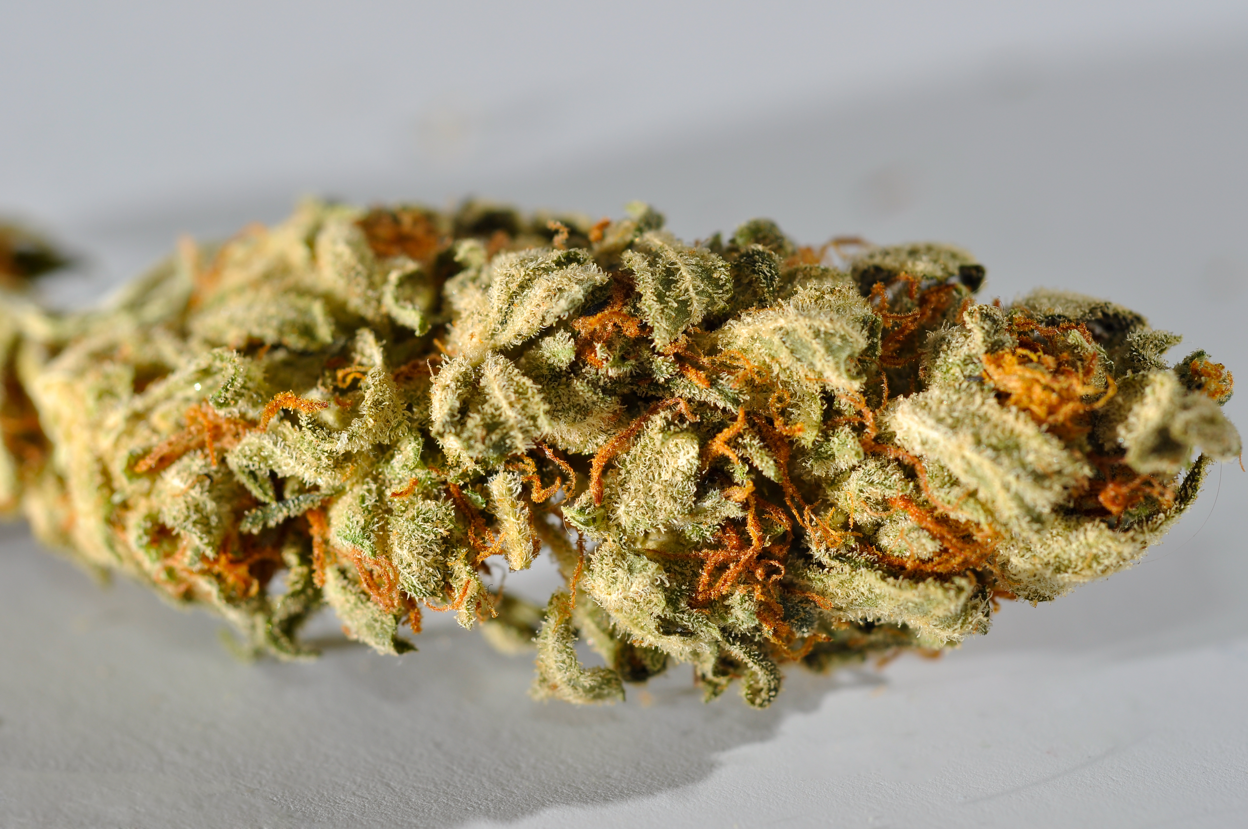 Close up shot of some high quality marijuana.